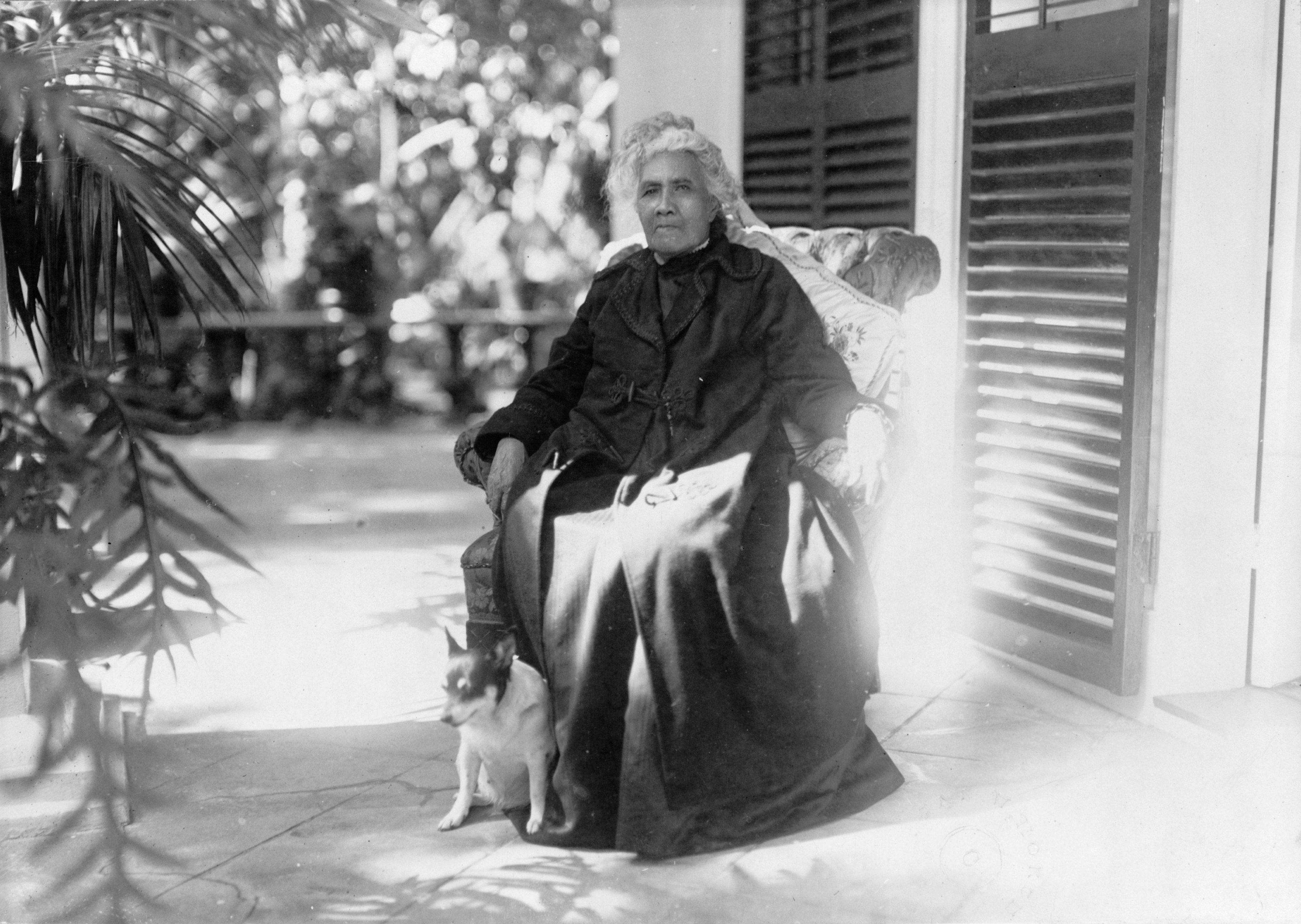 Liliuokalani, full-length portrait, seated, outdoors, with dog (her dog Poni), facing slightly left